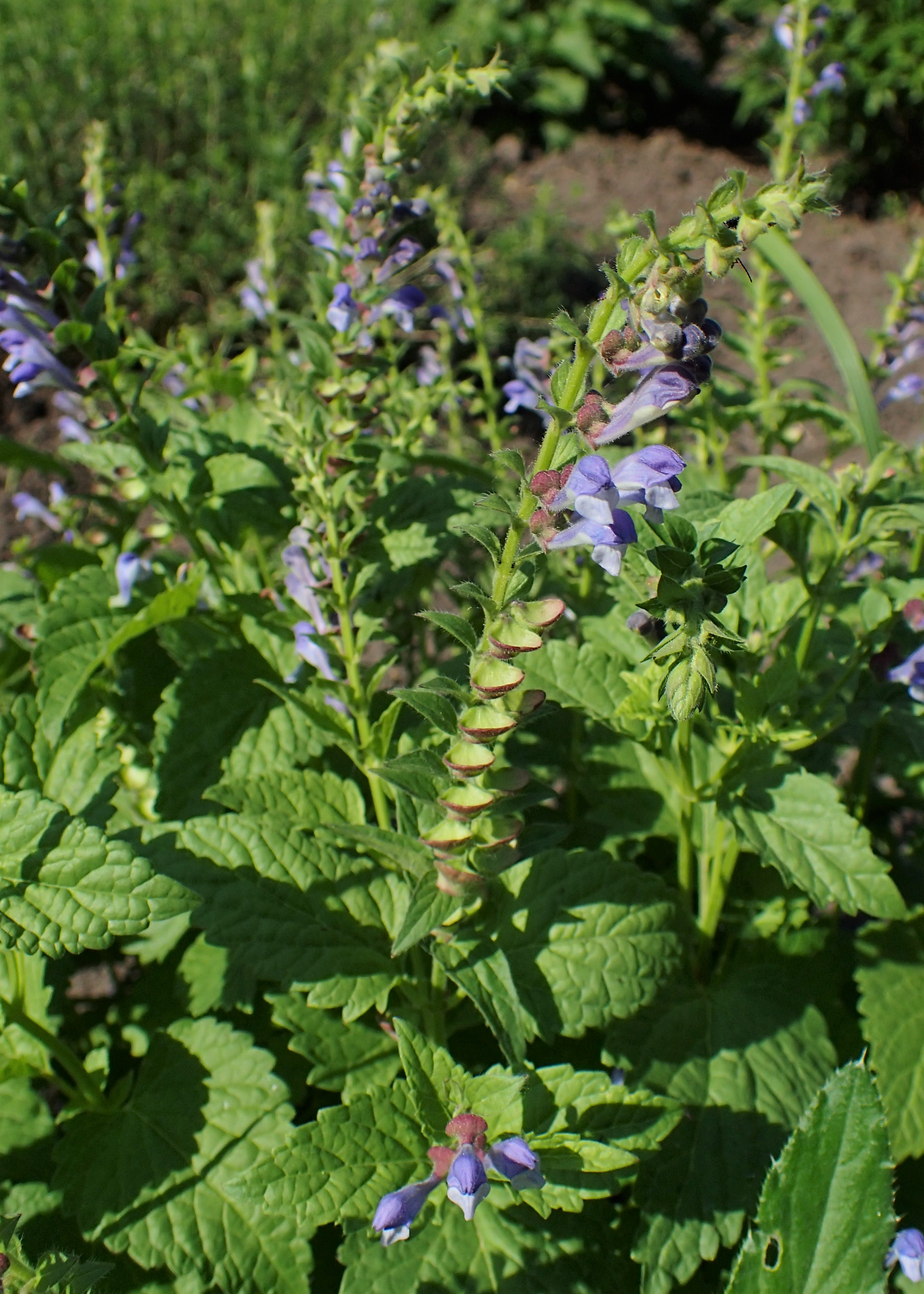 Scutellaria rubicunda in Botanical garden in Vácrátót